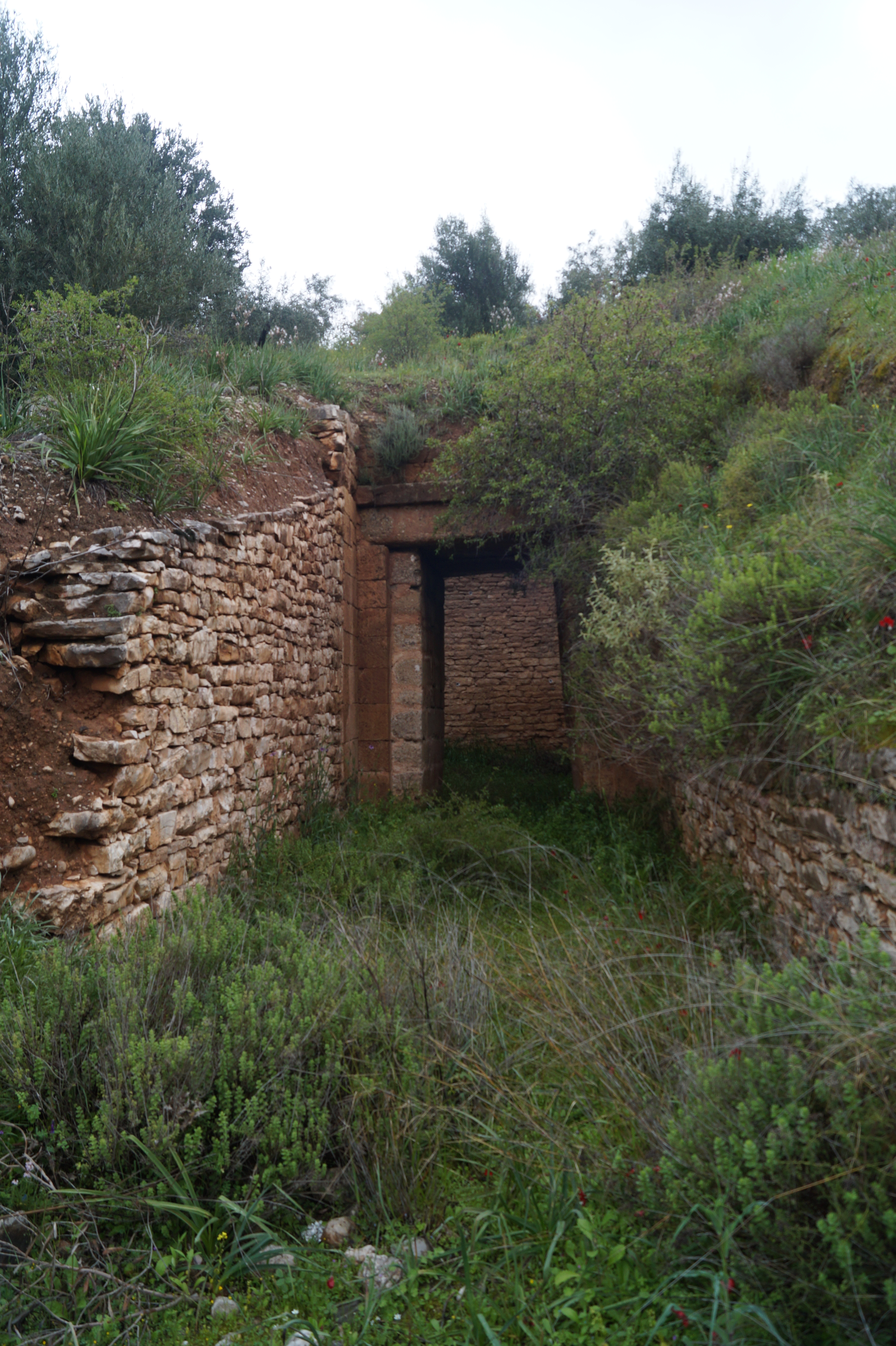 Mycenae: Dromos and Fassade of the Panagia tholos tomb.